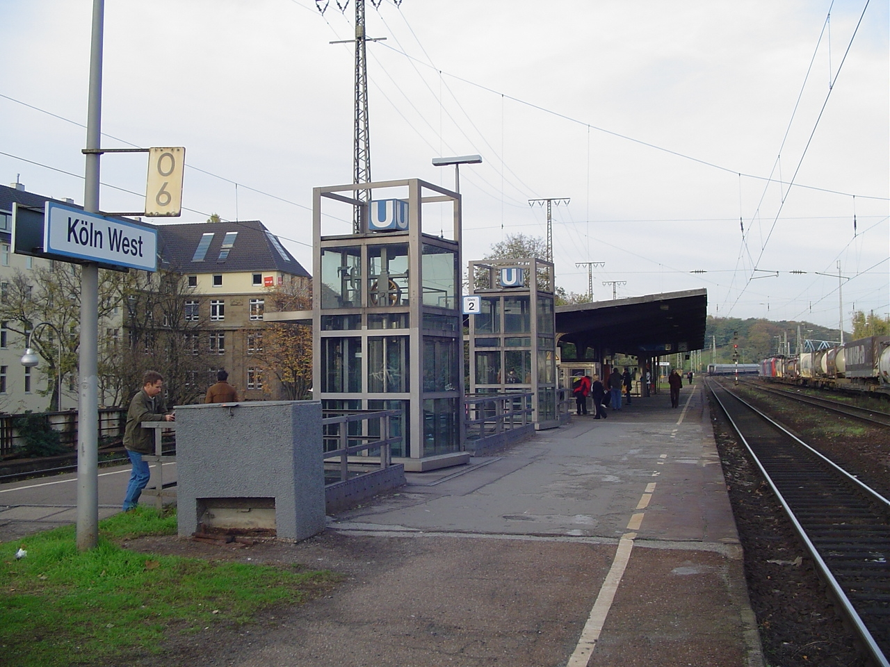 Köln West Railway Station, Cologne, Germany